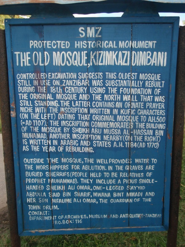 Kizimkazi Mosque Table